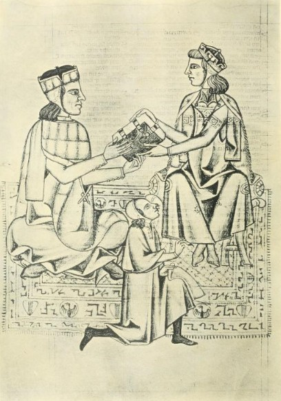 Manfred Bible